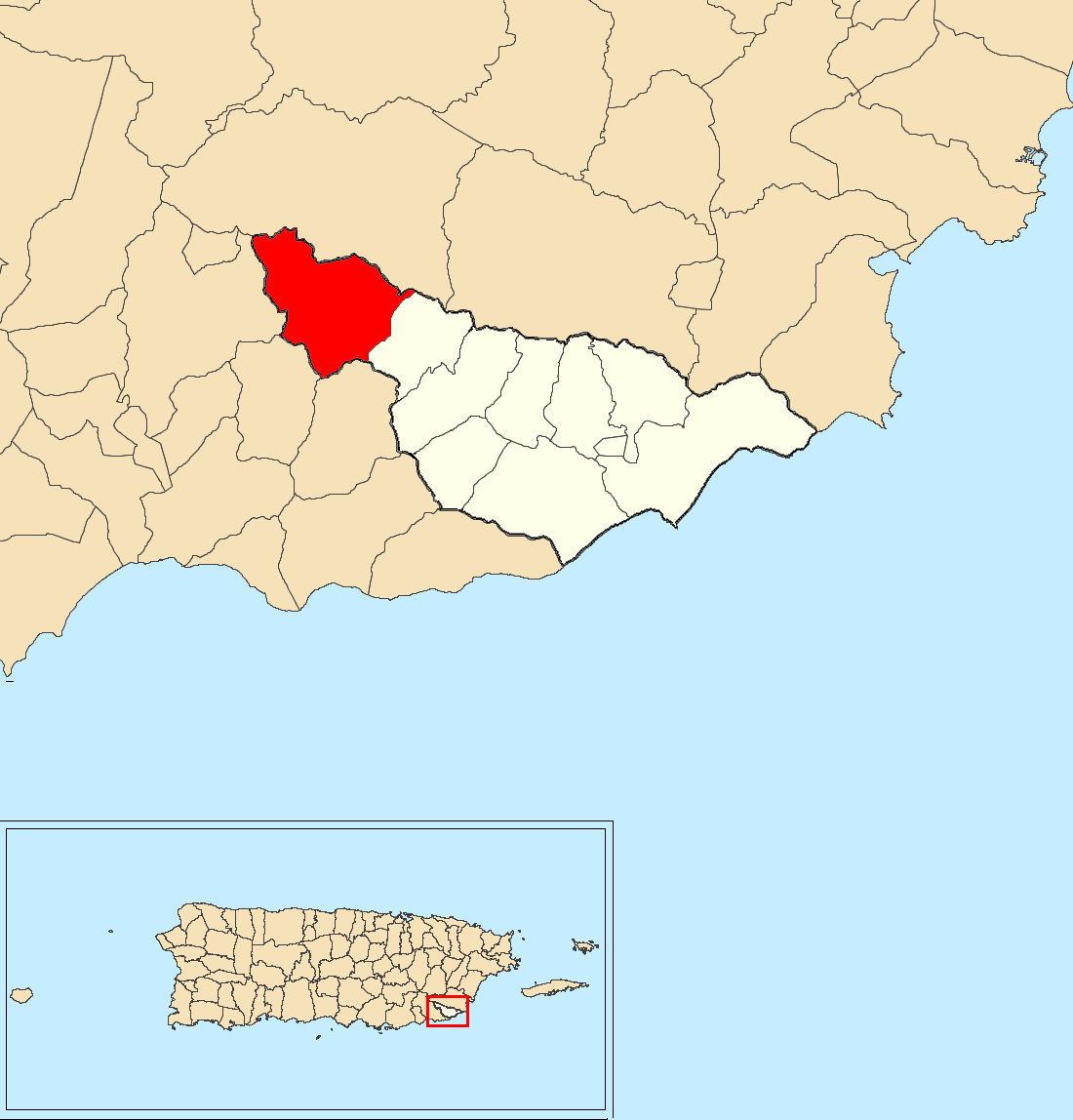 Matuyas Alto, Maunabo, Puerto Rico locator map